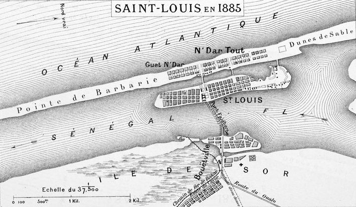 Map of Saint-Louis in 1885